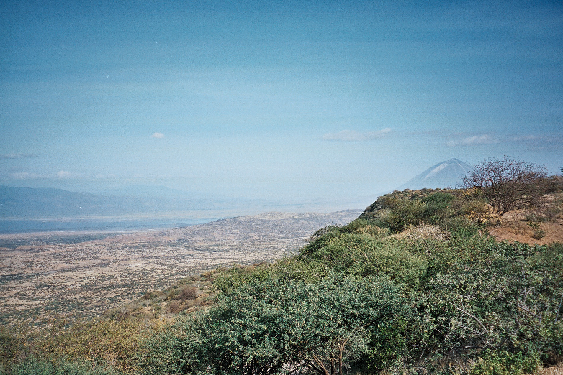 Rift valley seen from the rim, northern Tanzania, about 30km from kenyan border. Ol Doinyo Lengaï volcano is seen on the right and the southernmost tip of Lake Natron is seen on the left.